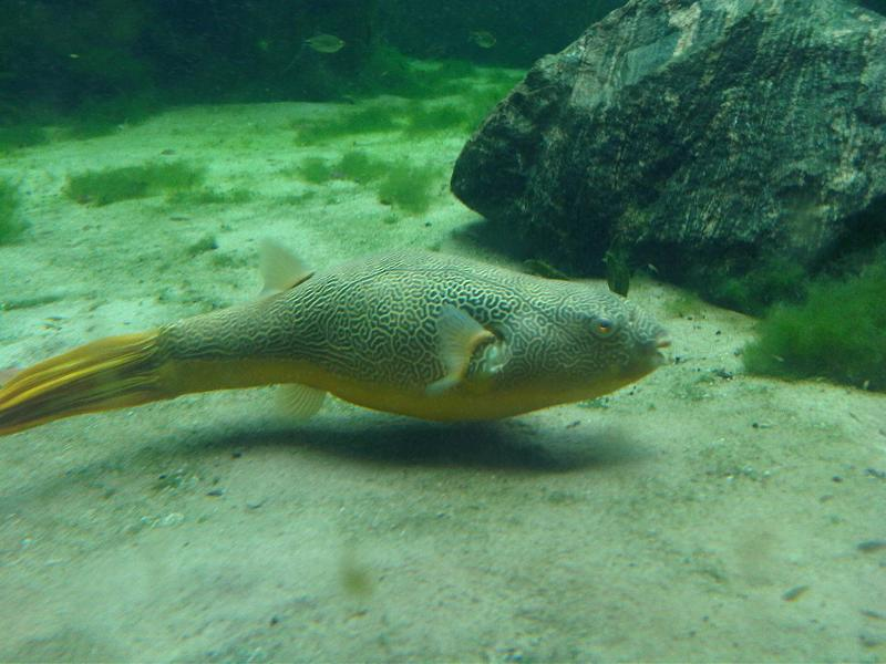 Tetraodon mbu in Kew Gardens, England.